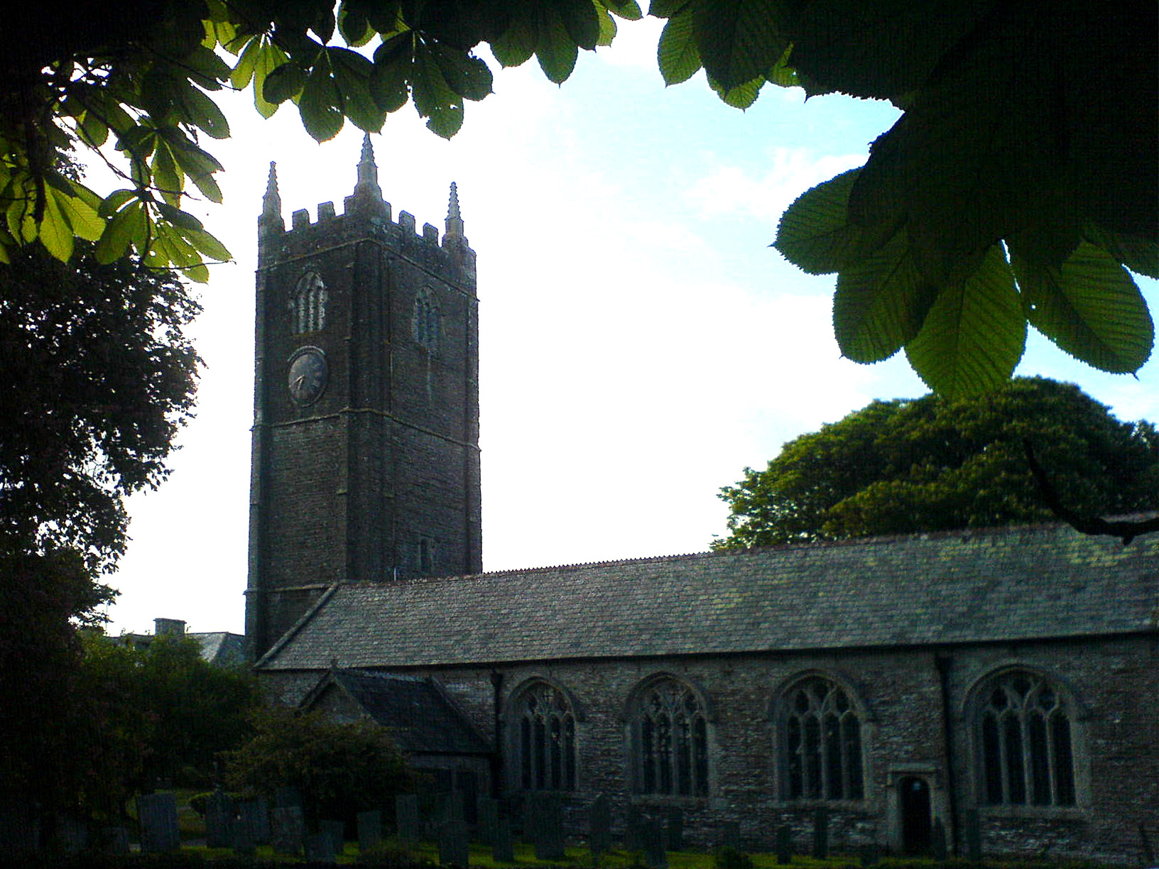 St. Petroc church in Egloshayle, Cornwall